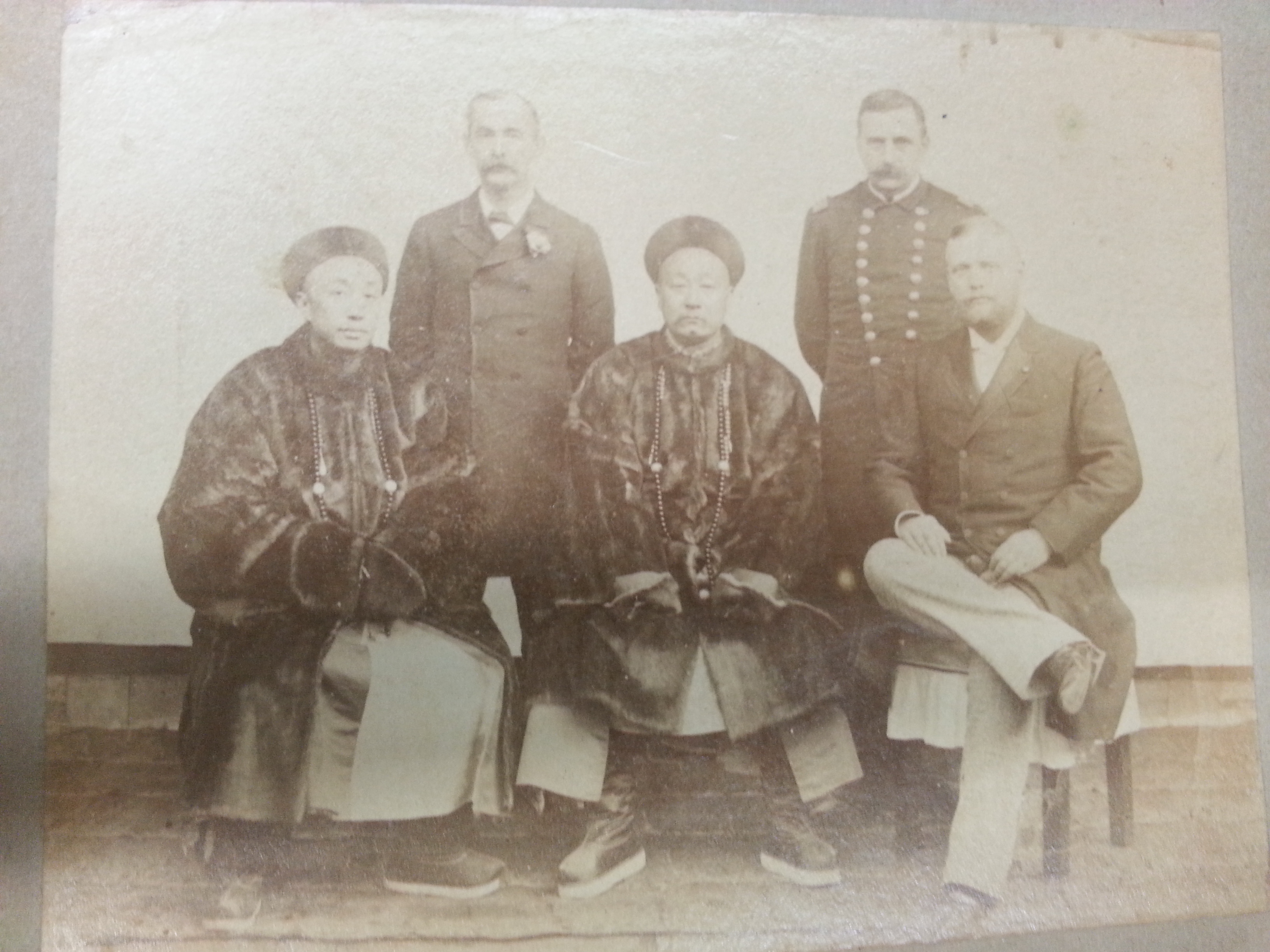 Portrait of the Cheng Tu Commision, associated with the American Development Company, with two unidentified Chinese men. From left to right: Secretary of the U.S. Legation in Peking, F.D. Cheshire, Lieutenant Merrill, and U.S. Consul, S.P. Read